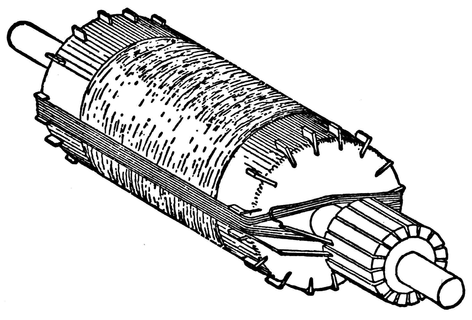 Text from original illustration: Figure 251: Illustrating the principle of an early Siemens drum winding. In order to make the winding and connections clear, one coil and the commutator is shown assembled, although the latter is not put in place until after all the coil sections have been wound, with the ends of the wires being temporarily twisted together until all can be soldered to the commutator risers. The cores of these early machines were made of wood, overspun circumferentially with iron wire before receiving the logitudinal copper windings.